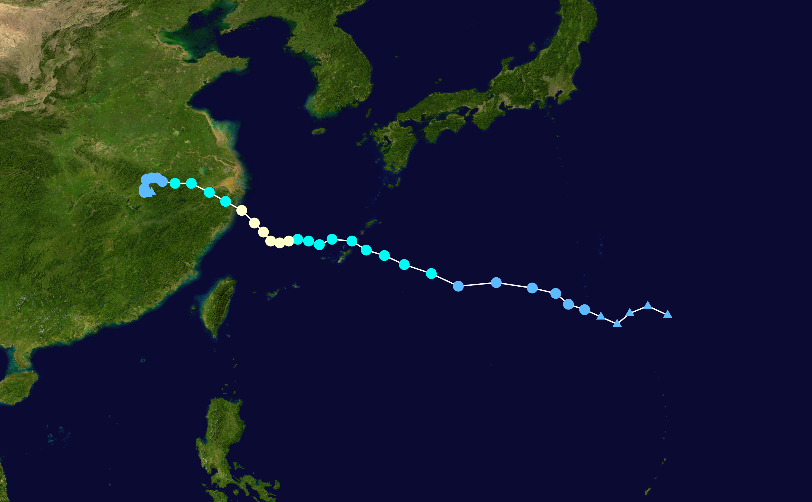 Track map of Typhoon Haikui of the 2012 Pacific typhoon season. The points show the location of the storm at 6-hour intervals. The colour represents the storm's maximum sustained wind speeds as classified in the Saffir–Simpson scale (see below), and the shape of the data points represent the nature of the storm, according to the legend below. Saffir–Simpson scale Tropical depression≤38 mph≤62 km/h Category 3111–129 mph178–208 km/h Tropical storm39–73 mph63–118 km/h Category 4130–156 mph209–251 km/h Category 174–95 mph119–153 km/h Category 5≥157 mph≥252 km/h Category 296–110 mph154–177 km/h Unknown Storm type Tropical cyclone Subtropical cyclone Extratropical cyclone / Remnant low / Tropical disturbance / Monsoon depression